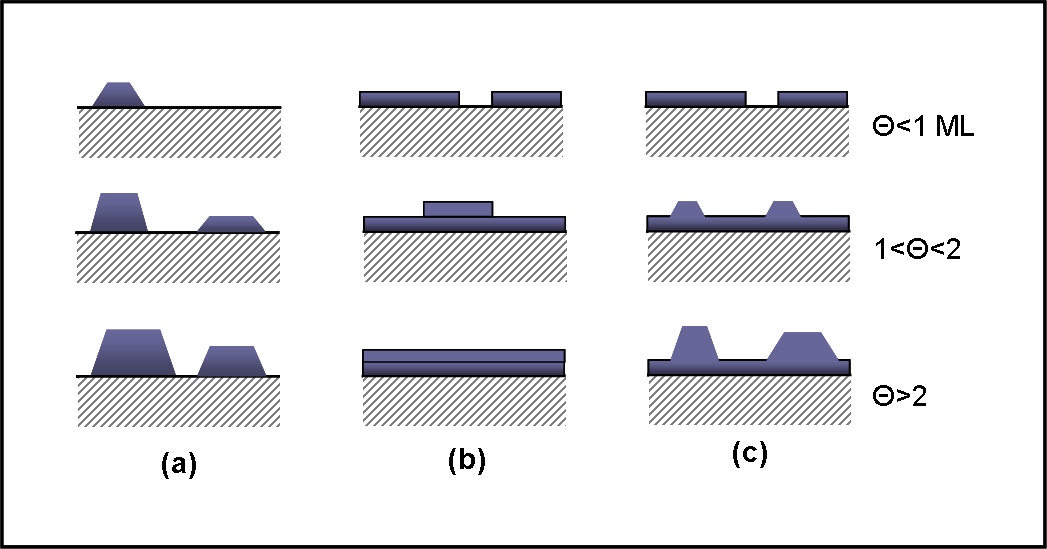 薄膜生长模式